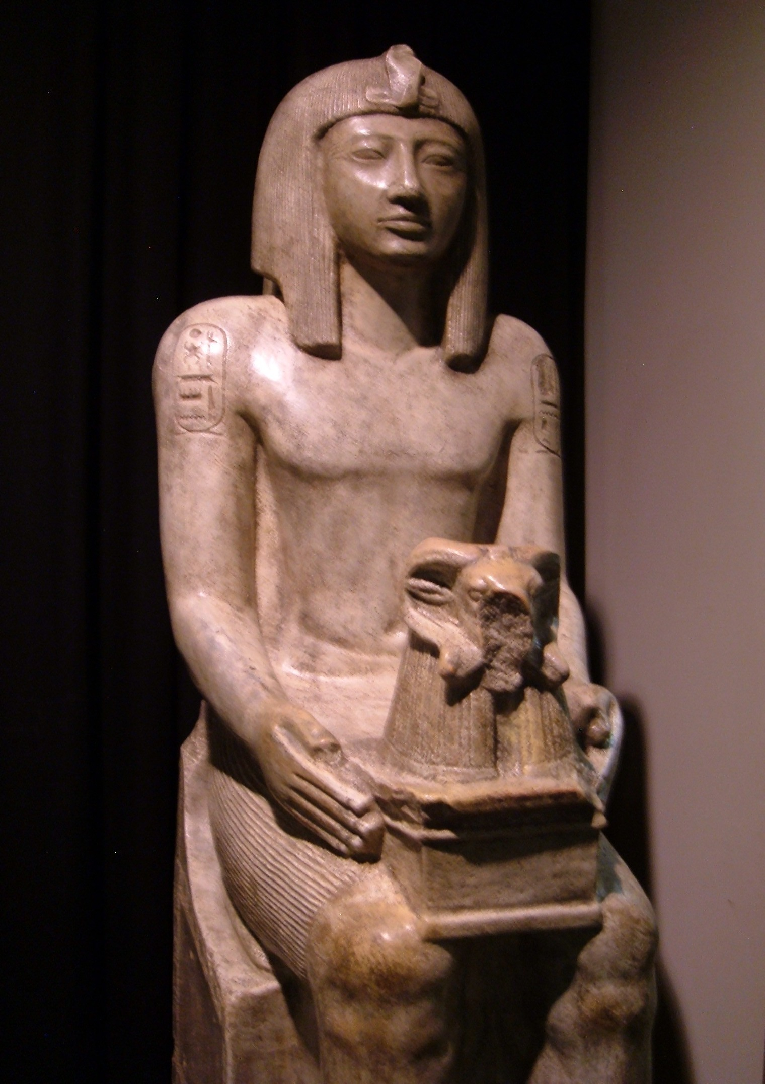 Replica of a relief of Seti II holding a shrine to the god Amun on display at the Rosicrucian Egyptian Museum in San Jose, California.